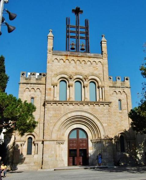 Saint Mary Church, Castelldefels, Barcelona, Catalonia, Spain